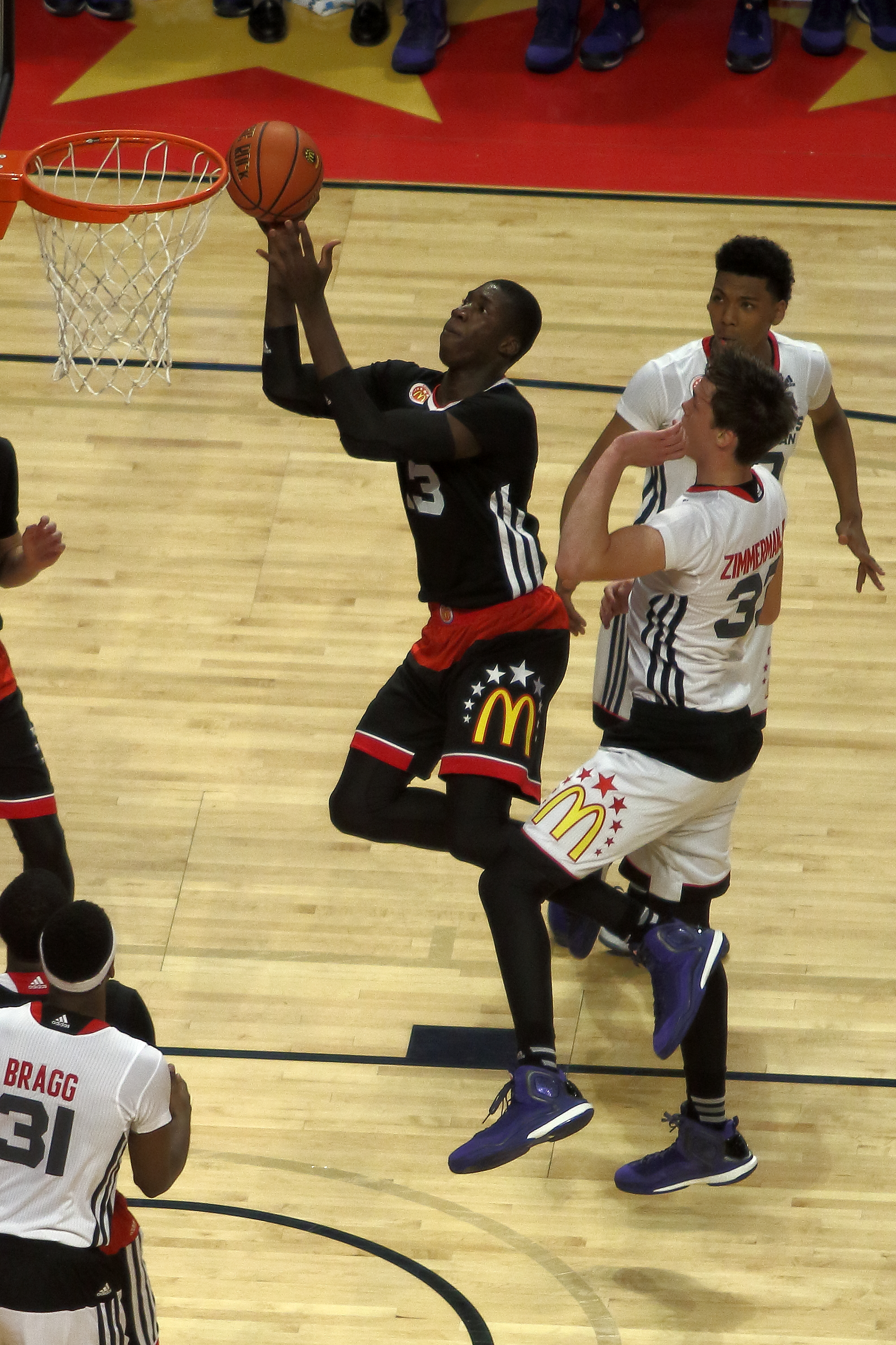 Cheick Diallo in front of Stephen Zimmerman and Malachi Richardson in the w:2015 McDonald's All-American Boys Game